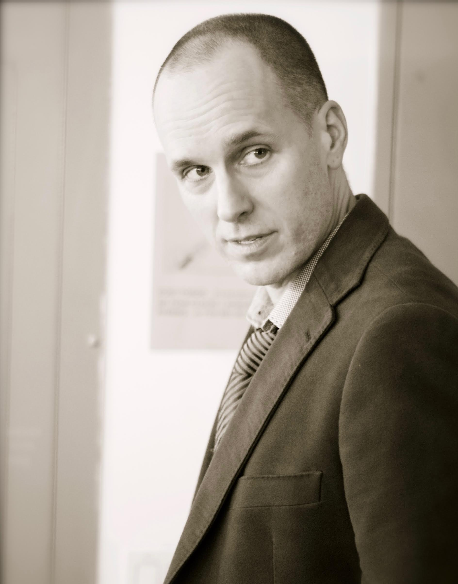 Photograph of actor Kelly AuCoin, October 2016